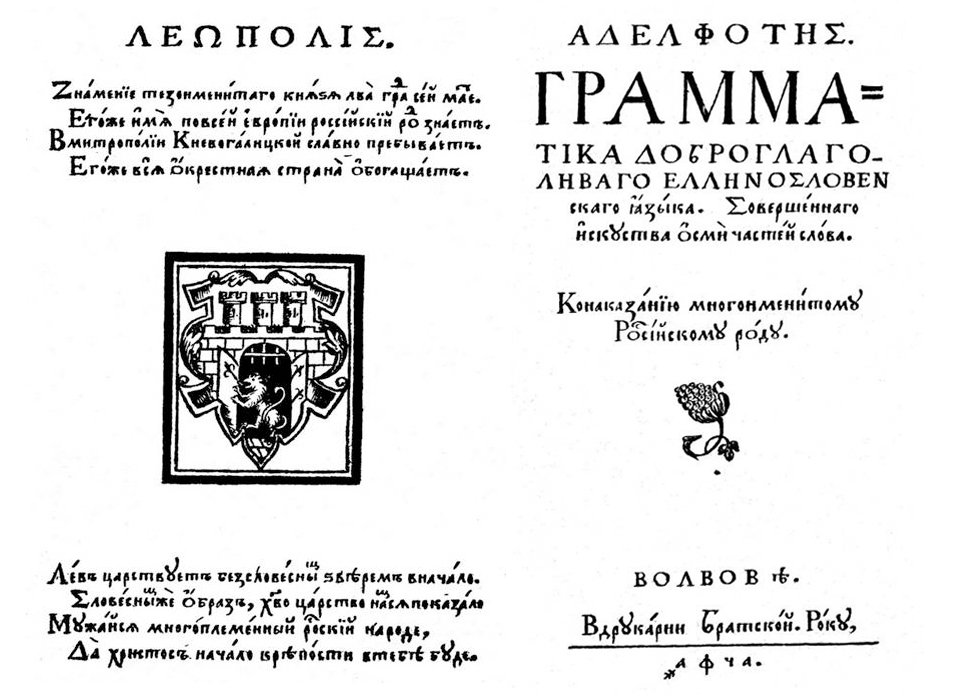 Titular letters of "Adelfotes" ("Ἀδελφότης") - Greco-Slavic (Church Slavic) language grammar. Published in Lviv in 1591.